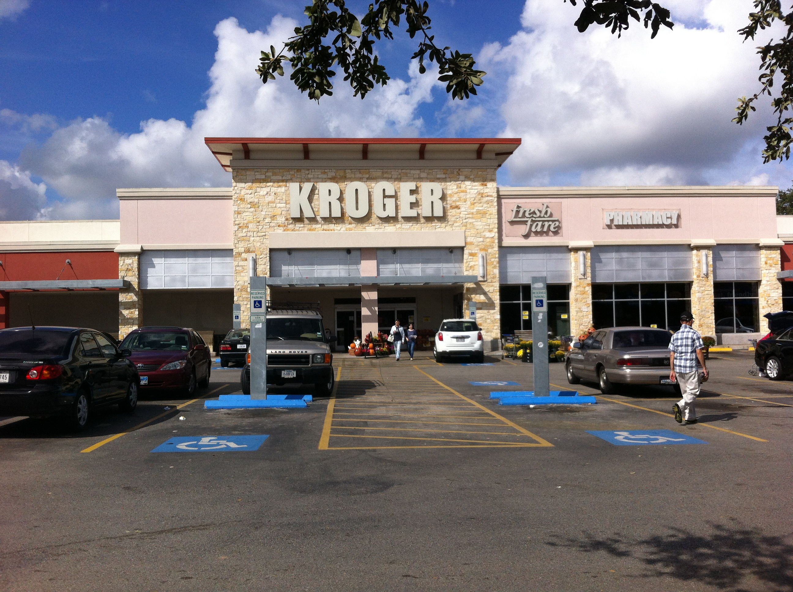 "Disco" Kroger in Montrose - 3300 Montrose Blvd, Houston, TX 77006